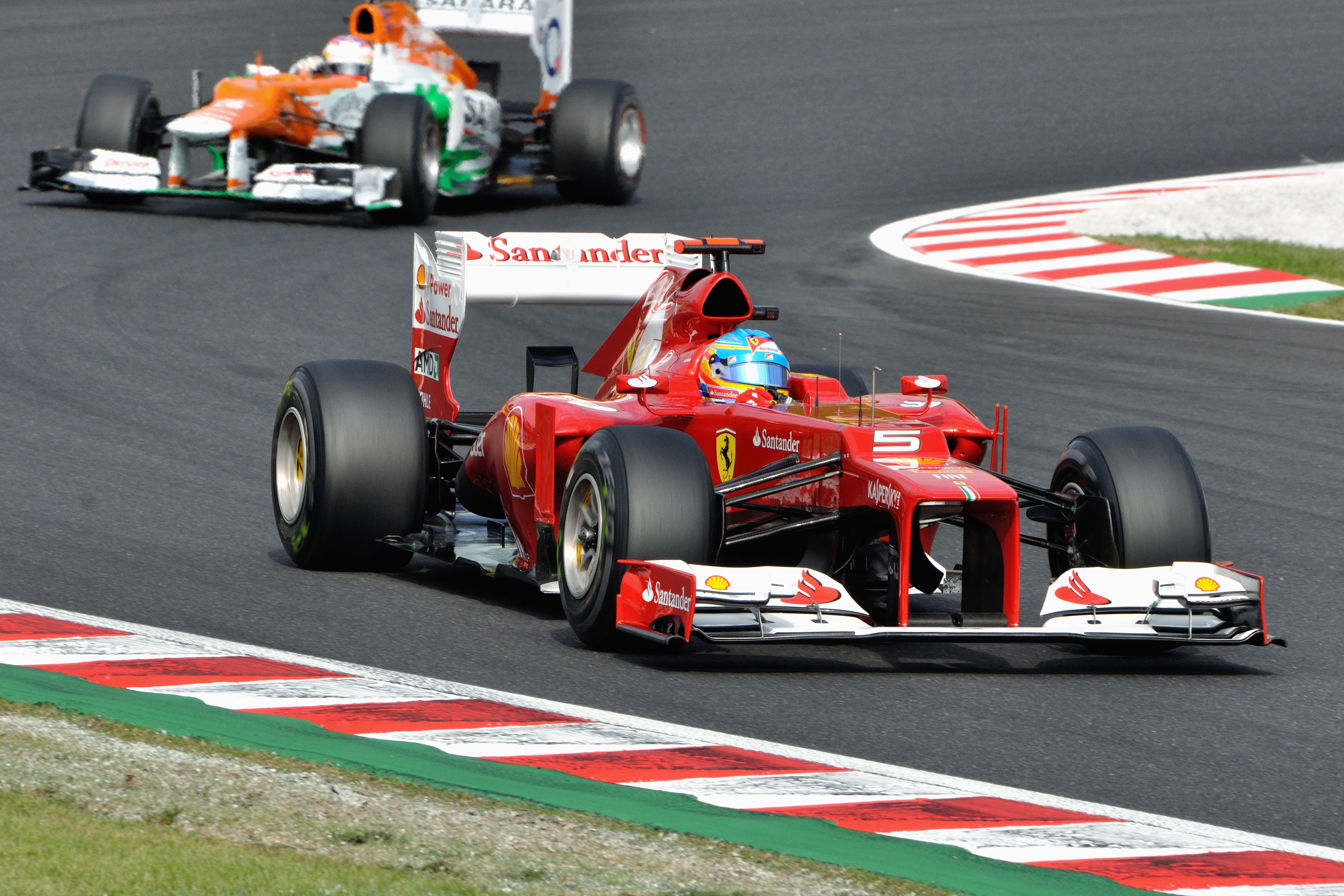 Paul di Resta in the Force India follows the Ferrari of Fernando Alonso through the hairpin during a qualifiying session for the 2012 Formula 1 Japanese Grand Prix.